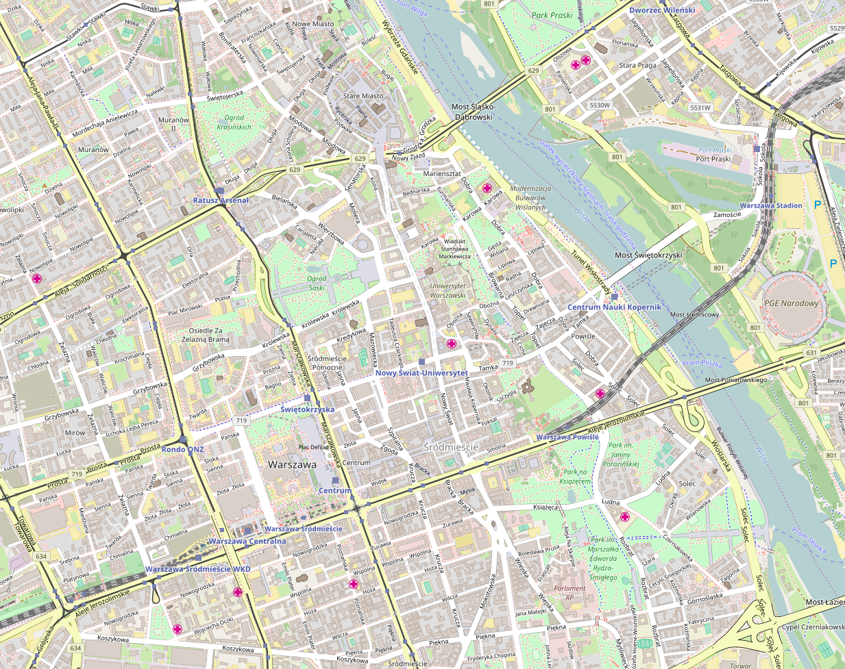 Map of central Warsaw Geographic limits of the map: N: 52.2534° S: 52.2236° W: 20.9858° E: 21.0532°